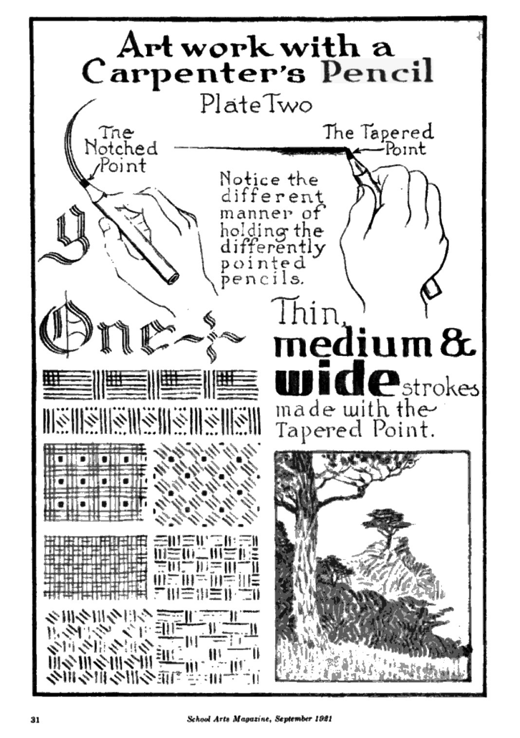 An example used in "Pencil Painting: The Artistic Use of the Carpenter's Pencil" from School Arts Magazine, September, 1921